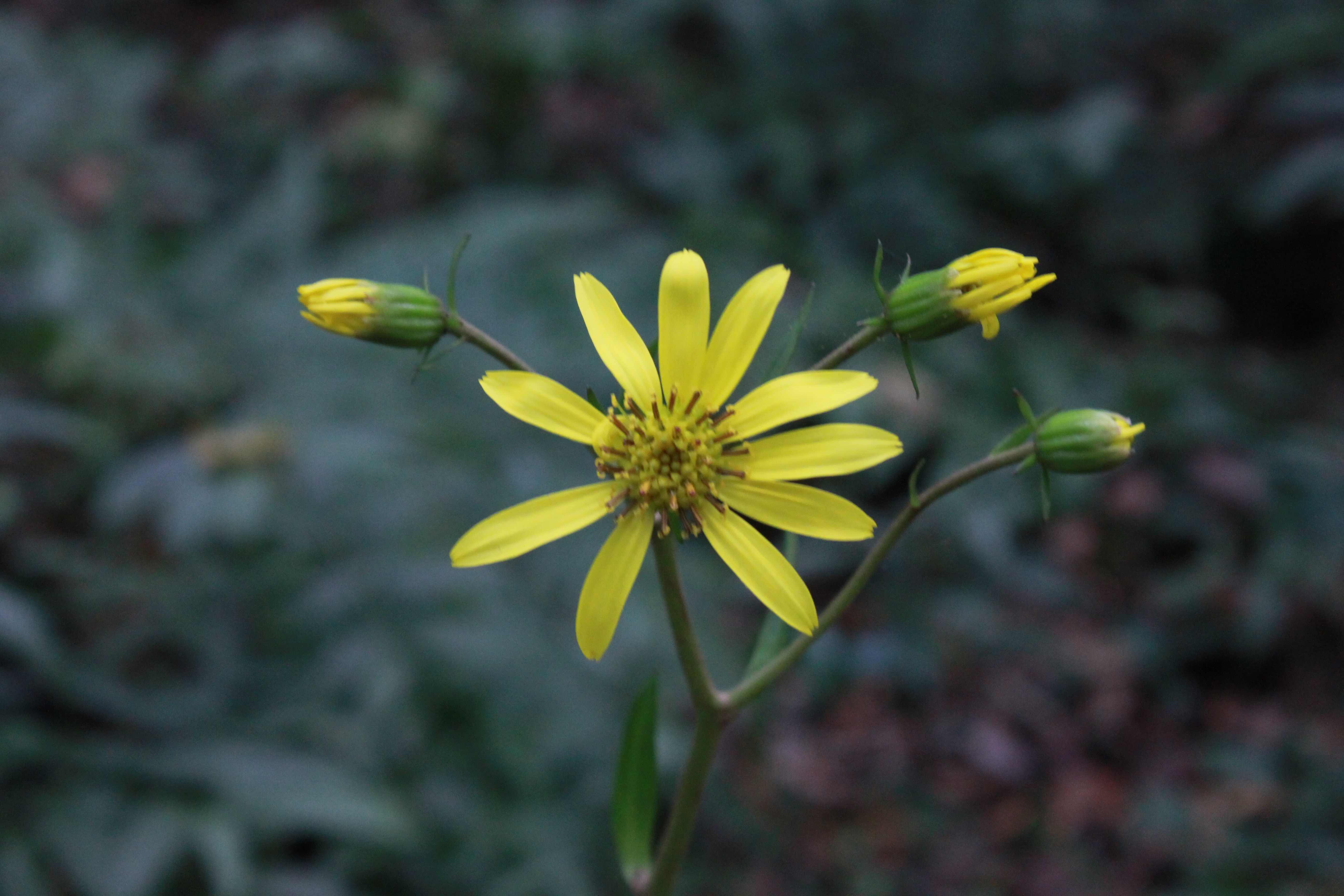 Inflorescence of Farfugium japonicum var. formosanum at Erziping, Yangmingshan National Park, Taipei, Taiwan.